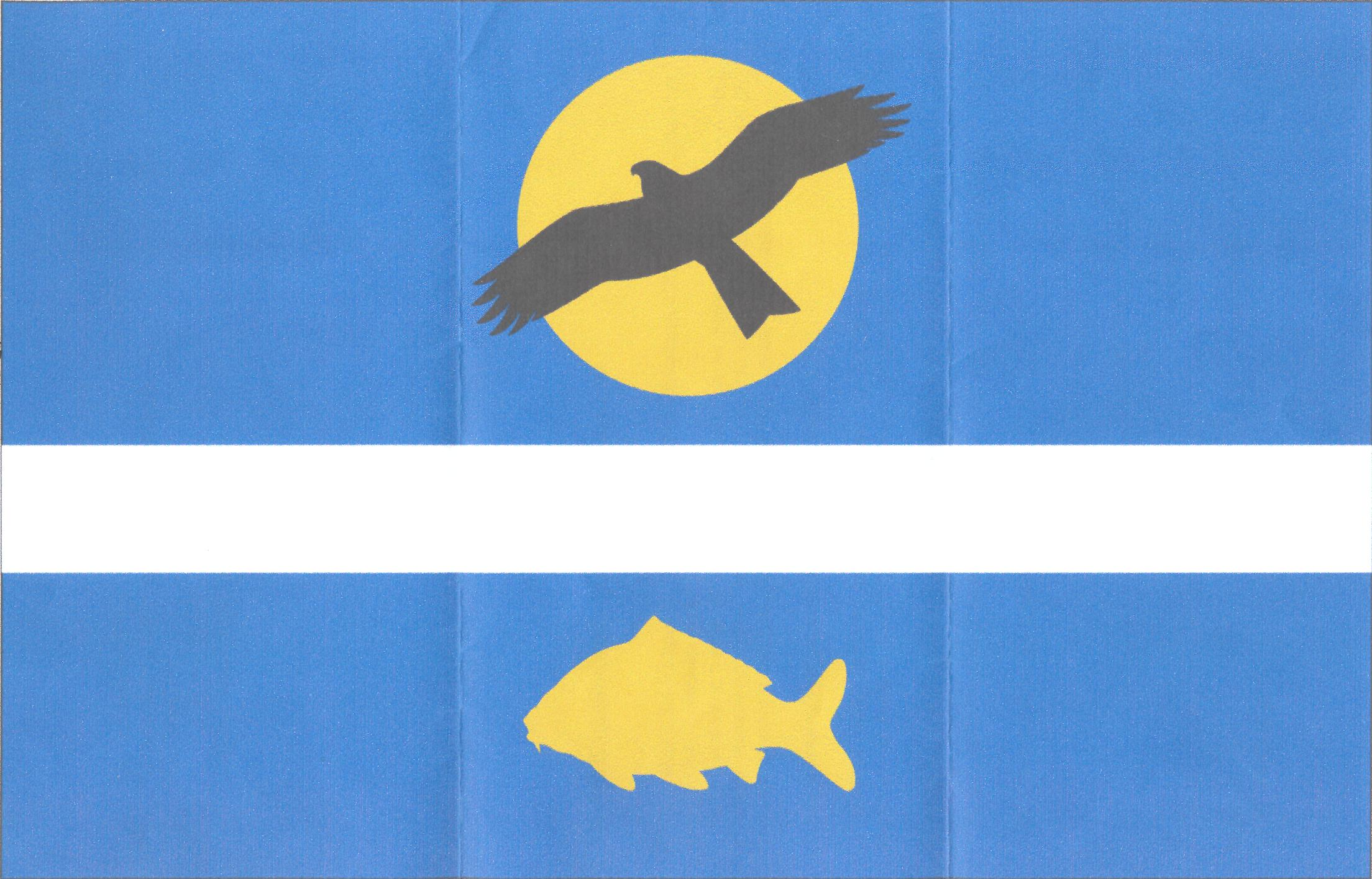 Municipal flag of Louňovice , District Prague East, Czech Republic